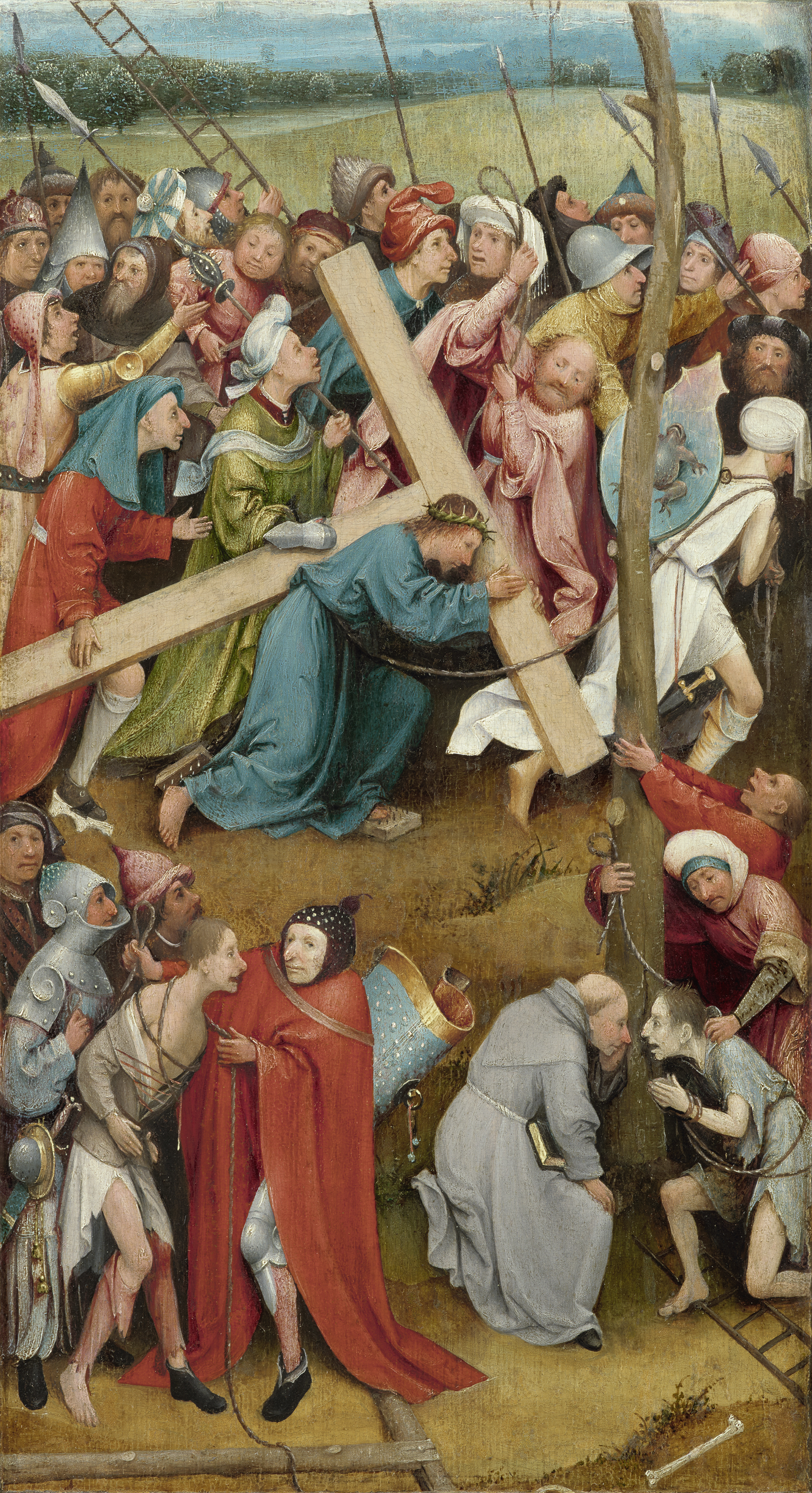 Inner left wing of a tryptych. See File:Hieronymus Bosch 101.jpg for the outer left wing.